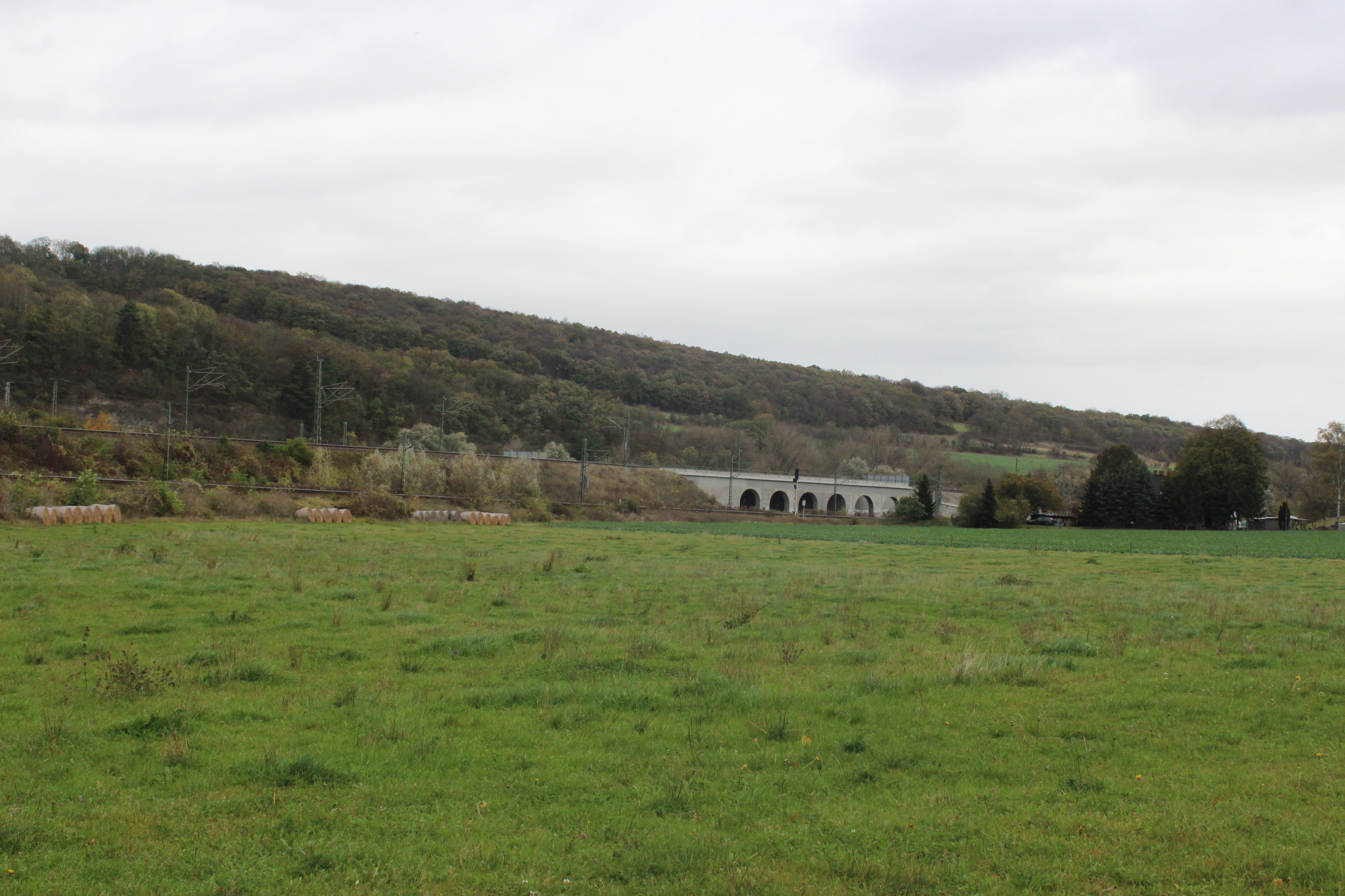 Abzw Saaleck